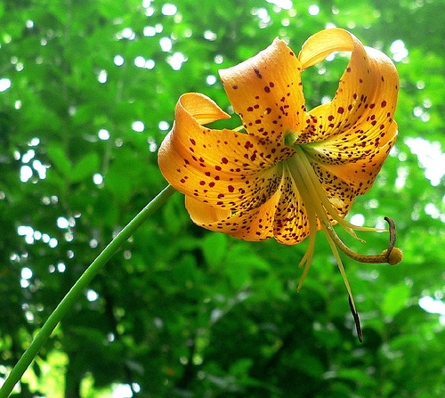 Turks Cap Lily the Great Smoky Mountains National Park in western North Carolina.